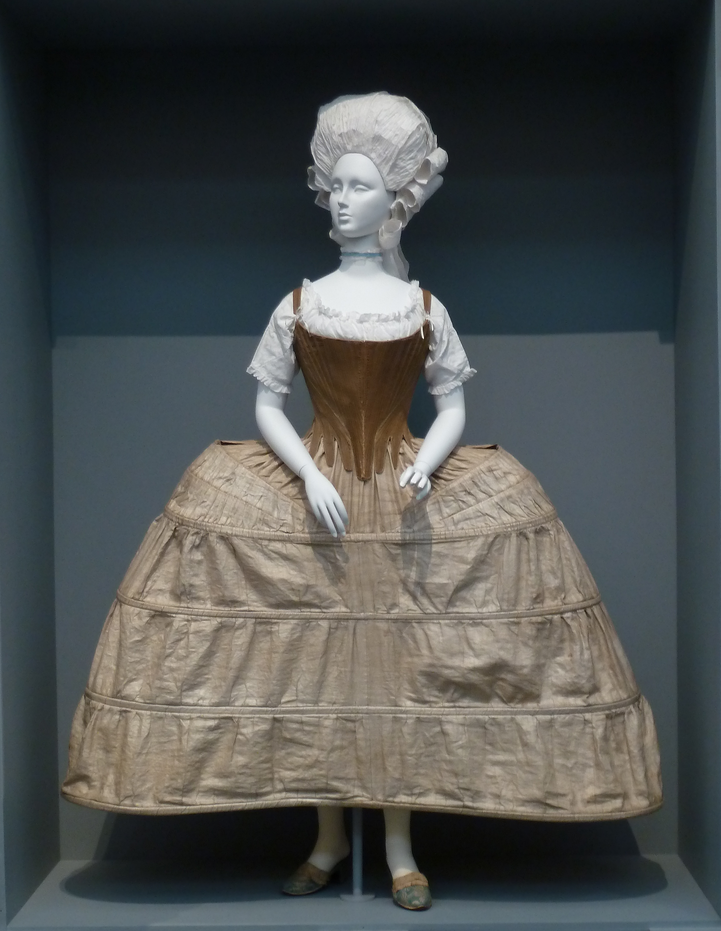 Stays or corset, English, c. 1780. Linen twill and baleen. M.2007.211.133. Hoop petticoat or pannier, English, 1750-80. Plain-woven linen and cane. M.2007.211.198. Chemise, English, 1775-1800. Plain woven cotton. M.2007.211.428. All, Los Angeles County Museum of Art.